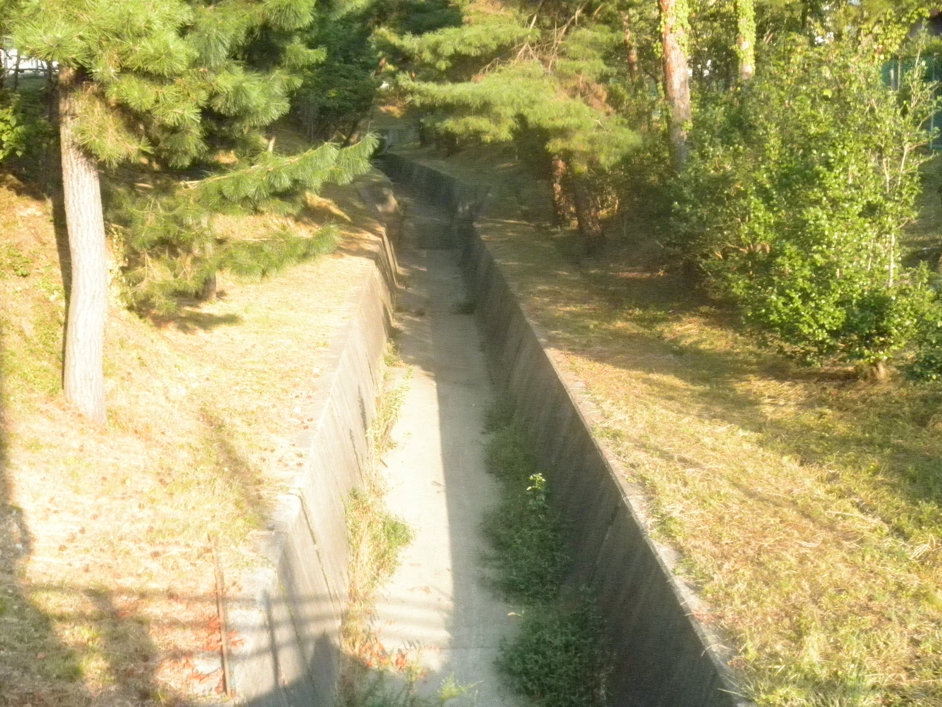 Midorigaokatown higashi4 Mikicity Hyogopref Ogoy hdrophobic